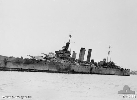 Australian War Memorial (AWM) catalog number 019438 HMAS Australia in Sydney Harbour during 1945 showing the damage she sustained from attacks by Japanese Kamakazi aircraft while participating in the liberation of the Philippines in 1944 and early 1945.